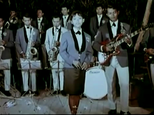 khmer singer ភាសាខ្មែរ: តារាចម្រៀងខ្មែរ